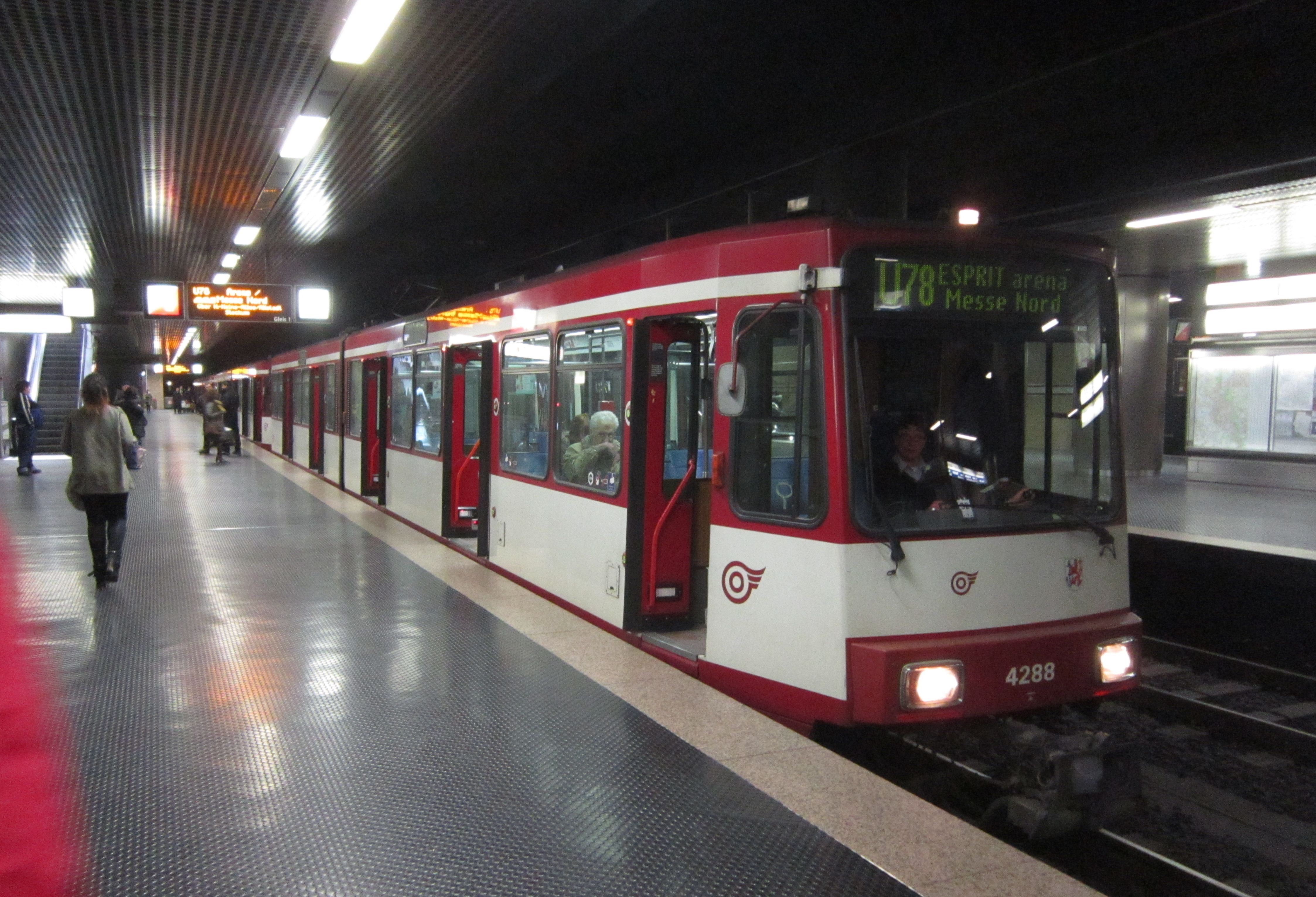 U78 of Düsseldorf Stadtbahn at Düsseldorf Hauptbahnhof U-Bahnhof